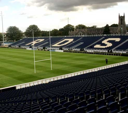 RDS Arena